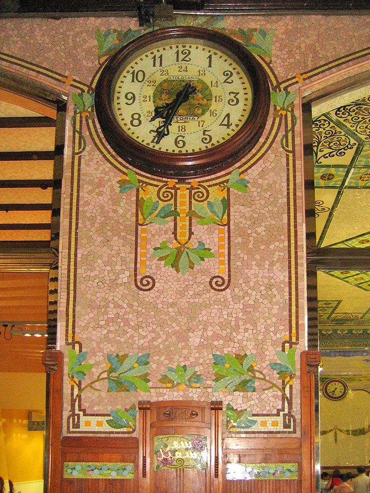 Clock in Valencia train station